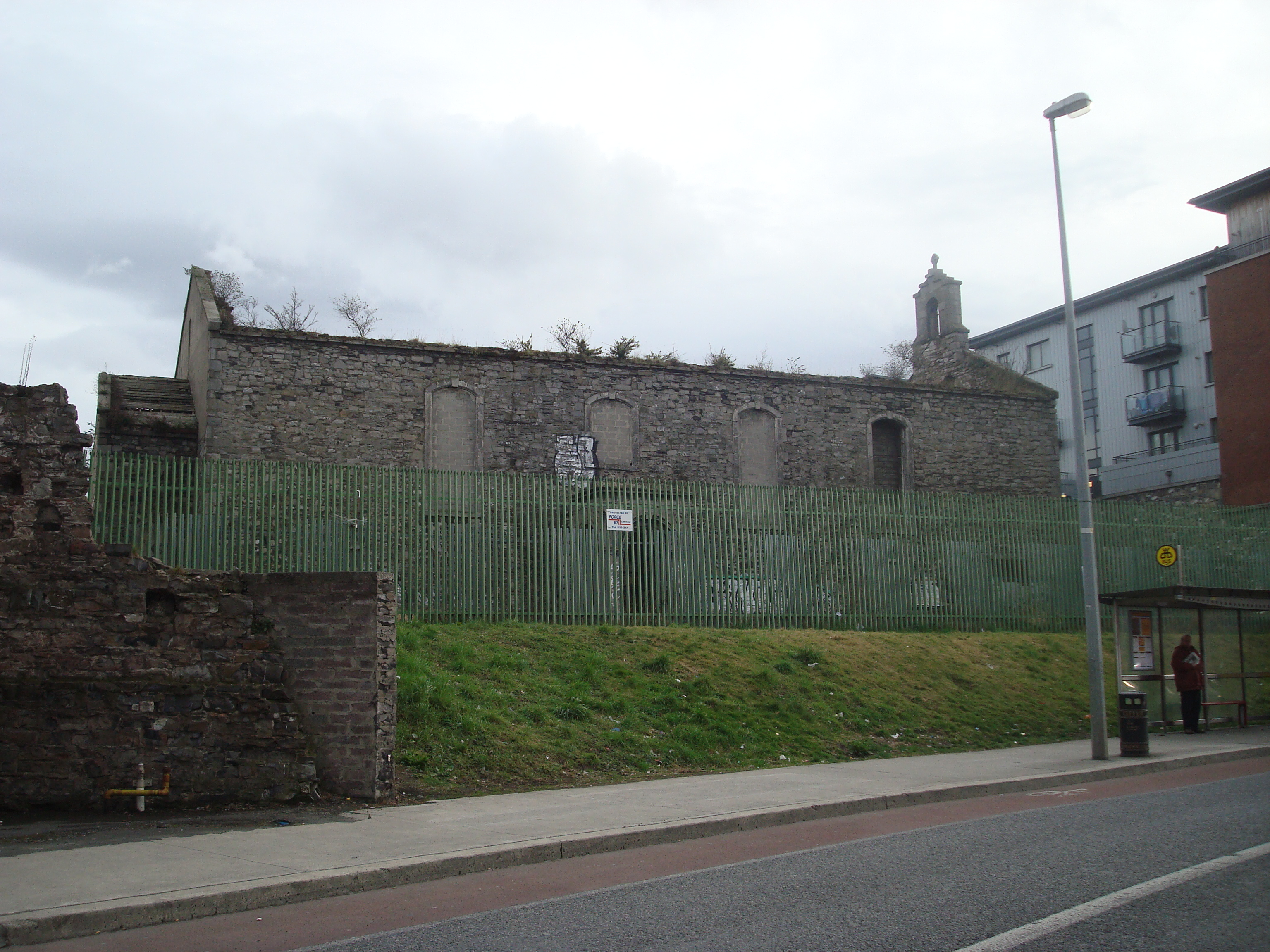 St. Luke's, Cork Street, Dublin